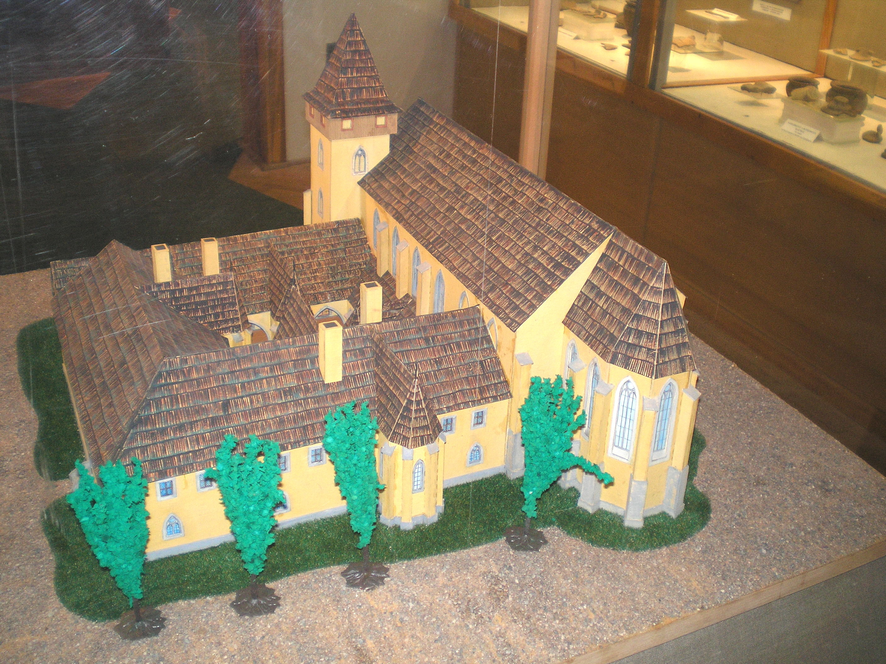 Chrast museum, maquette of the Podlažice Monastery